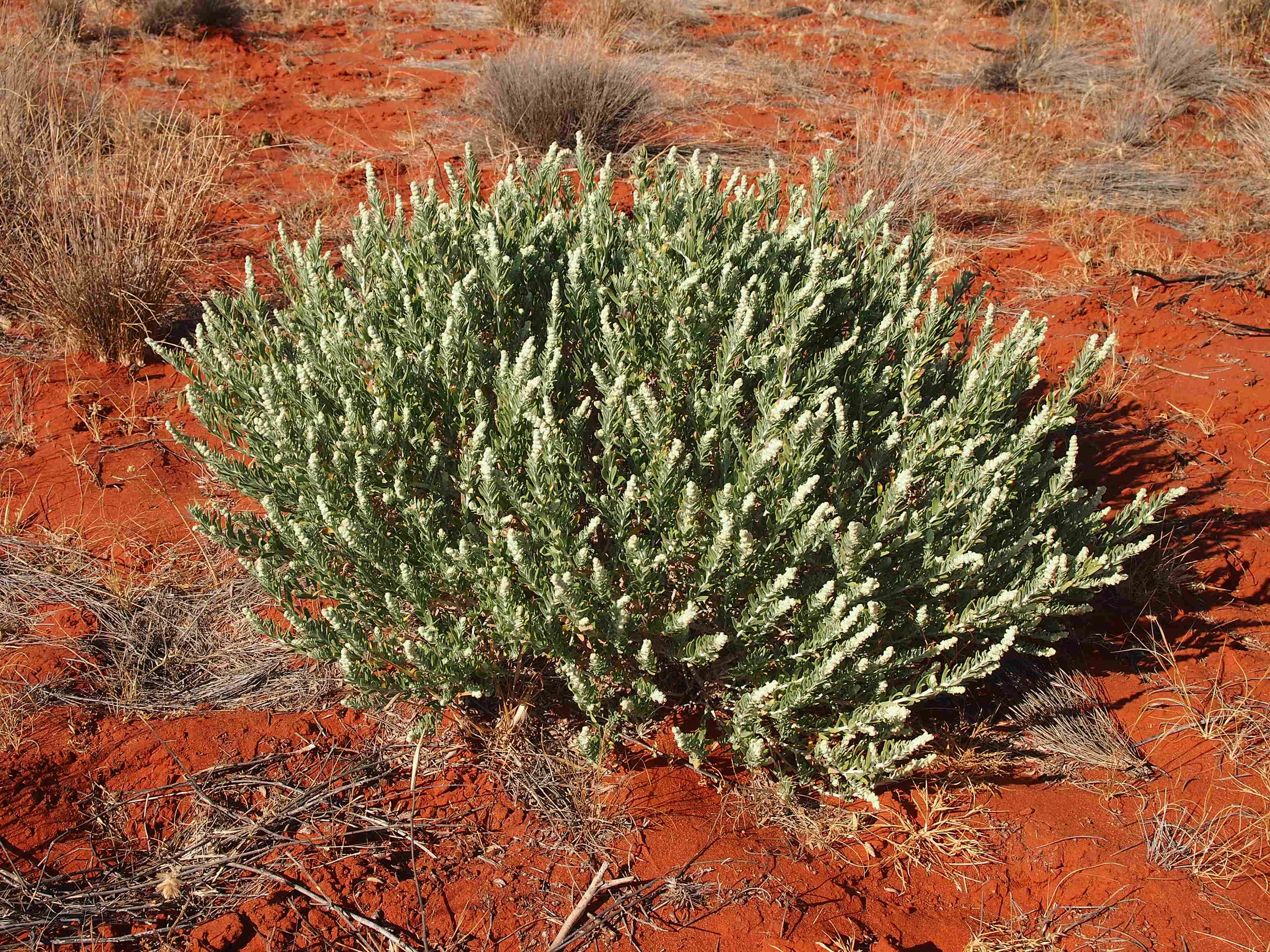 Dicrastylis costelloi var. costelloi habit